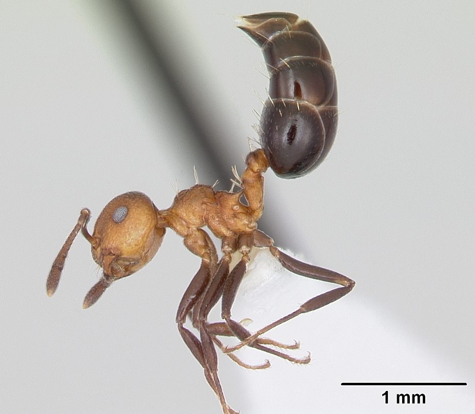 Profile view of ant Crematogaster corticicola specimen casent0173934.